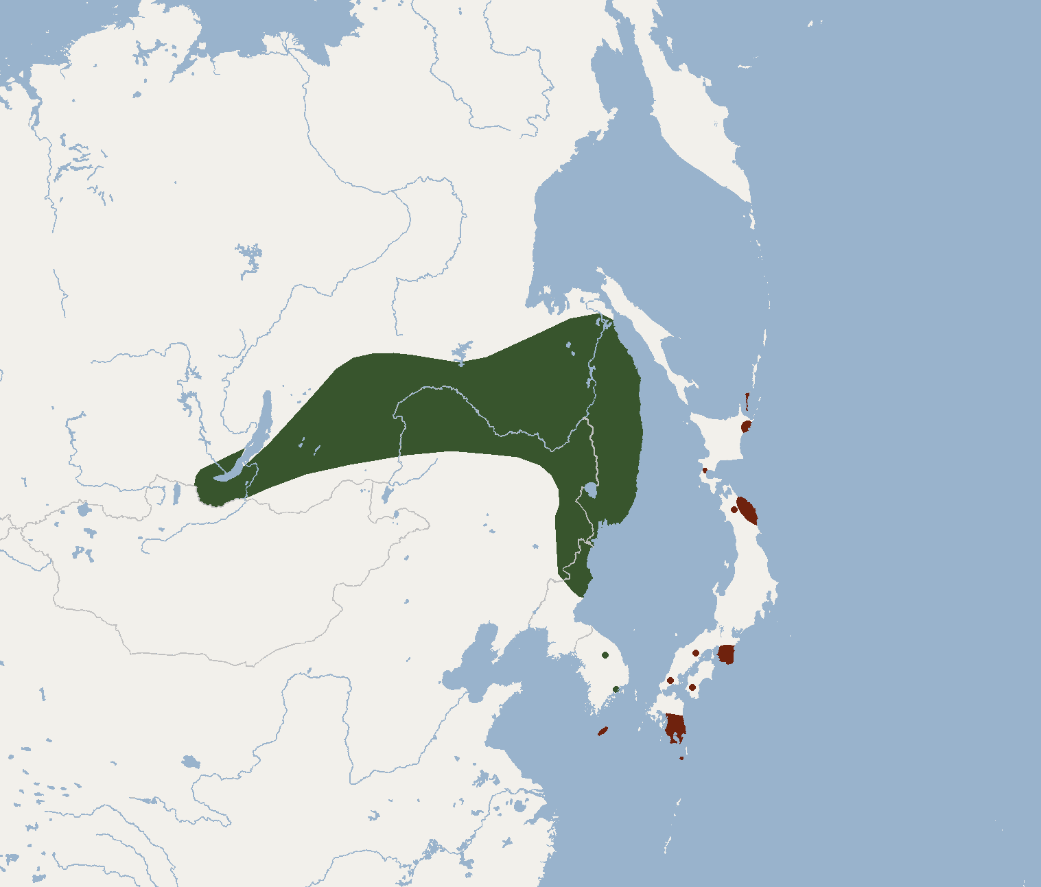 According to IUCN Redlist